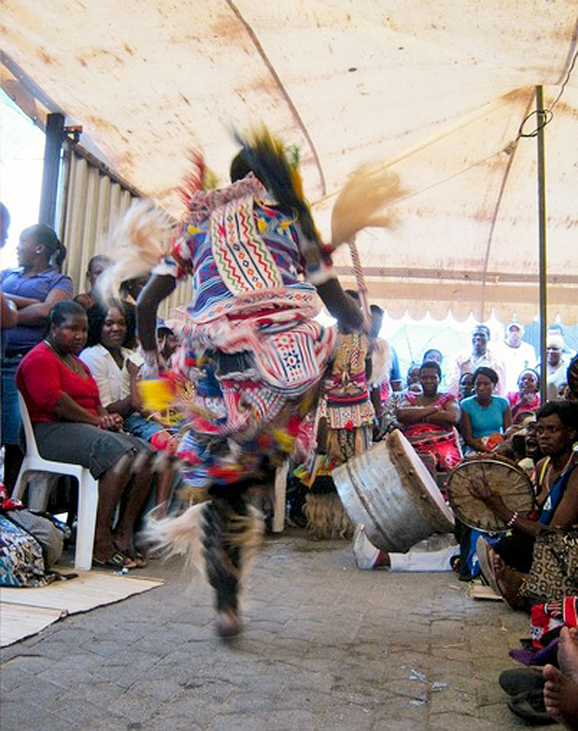 Sangoma, Baba Liefa from Shoshanguve, is dancing in celebration of his ancestors, wearing homemade traditional ancestral attire.